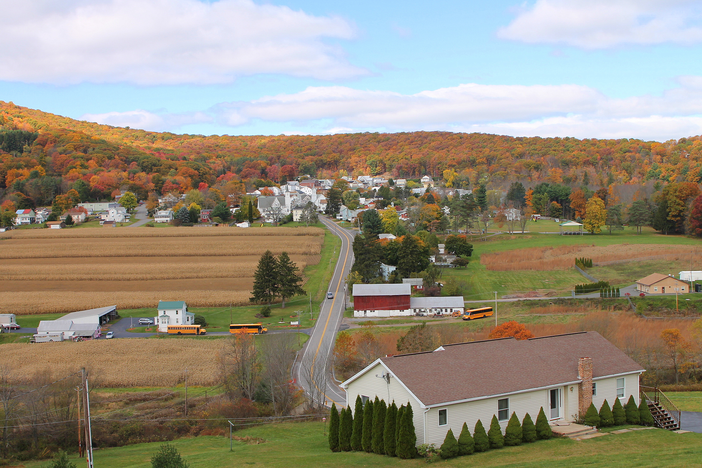 View of Nuremberg, Pennsylvania from a hill to the south